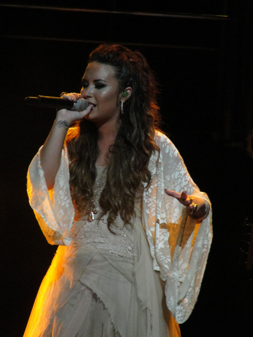 Demi Lovato performing "Together" at Club Nokia in Los Angeles